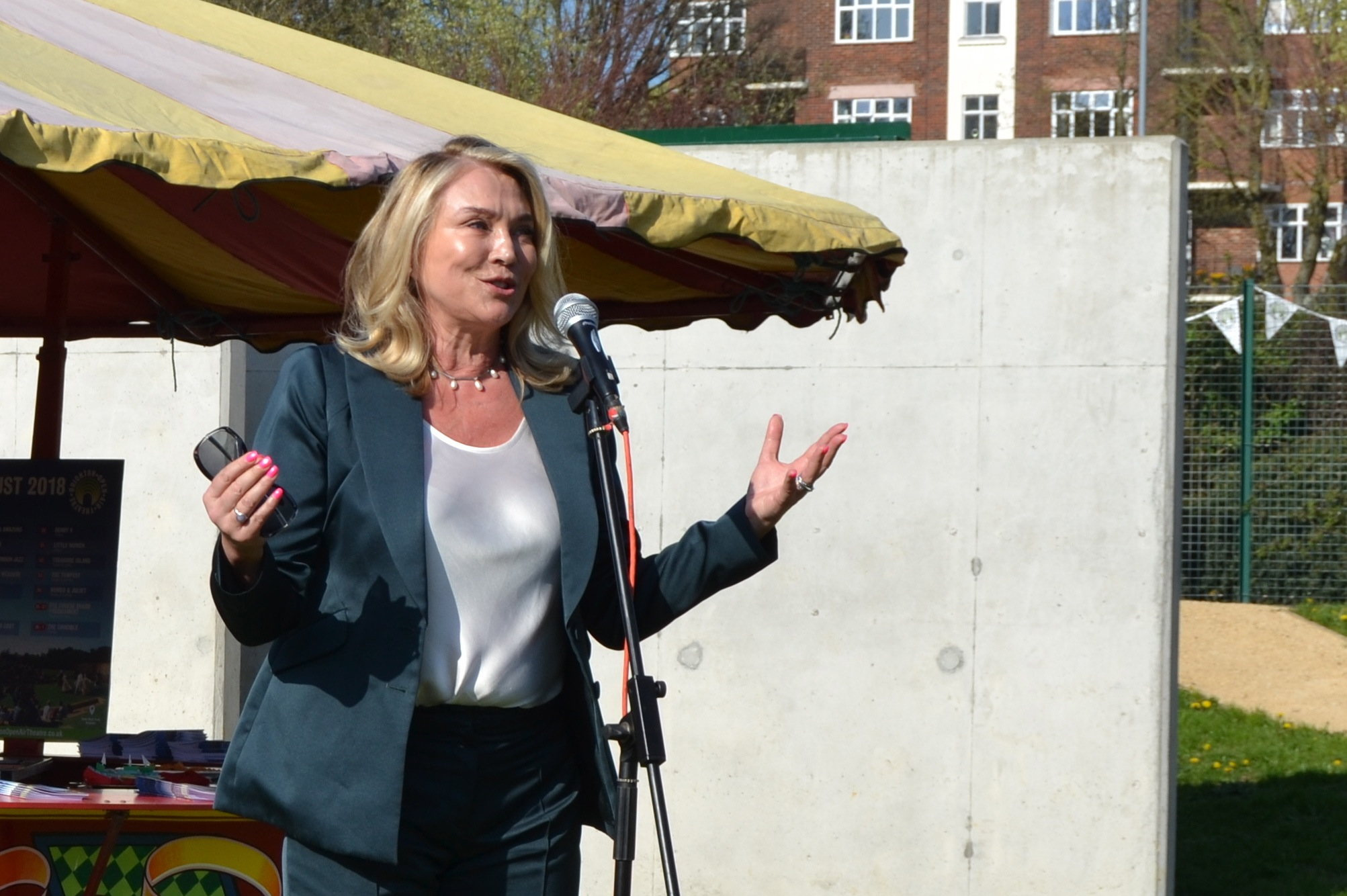 Amanda Redman speaking at the press launch of Brighton Open Air Theatre's 2018 programme, 20 April 2018